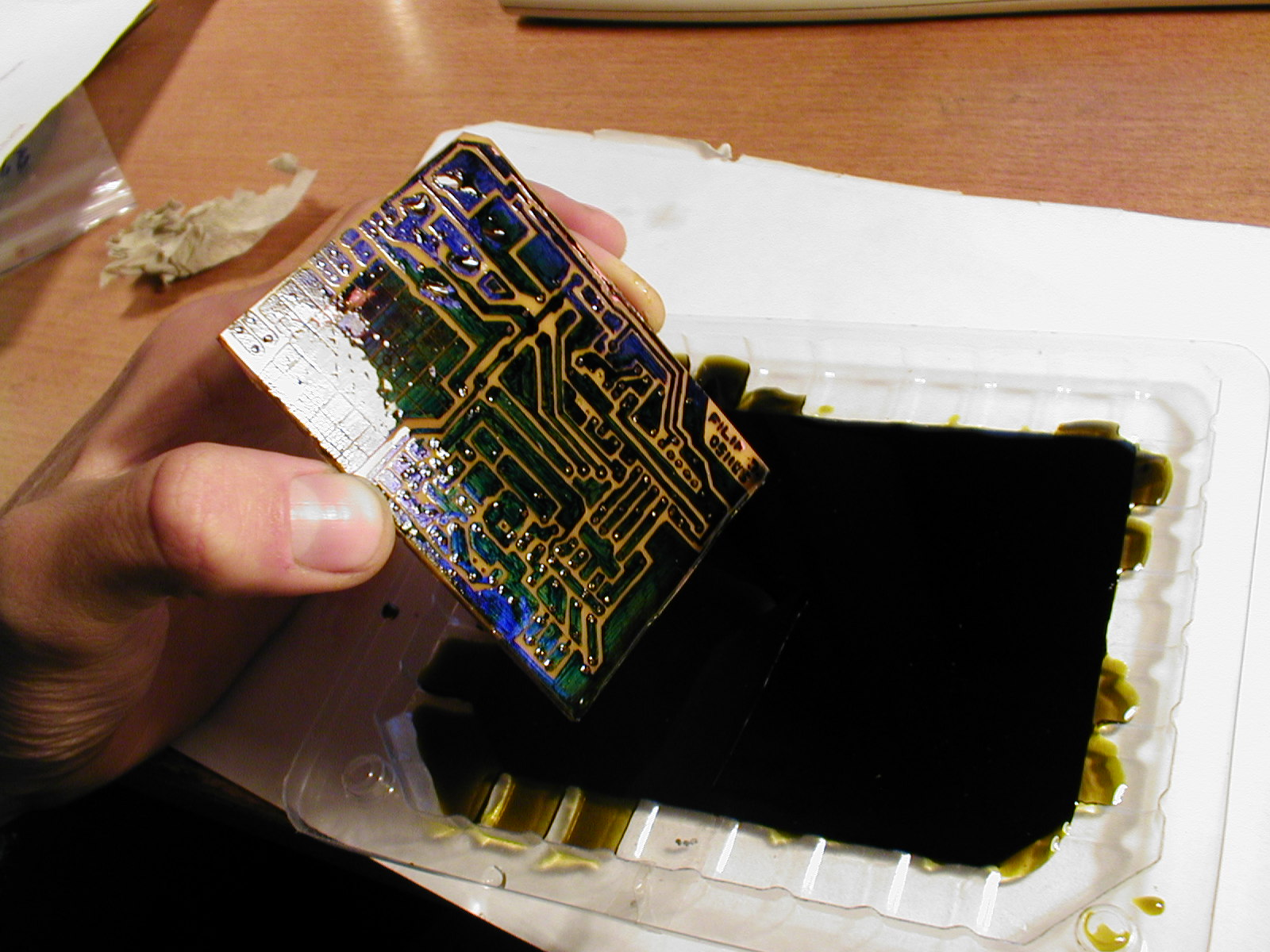 Creating of a circuit board 5 - successfully etched